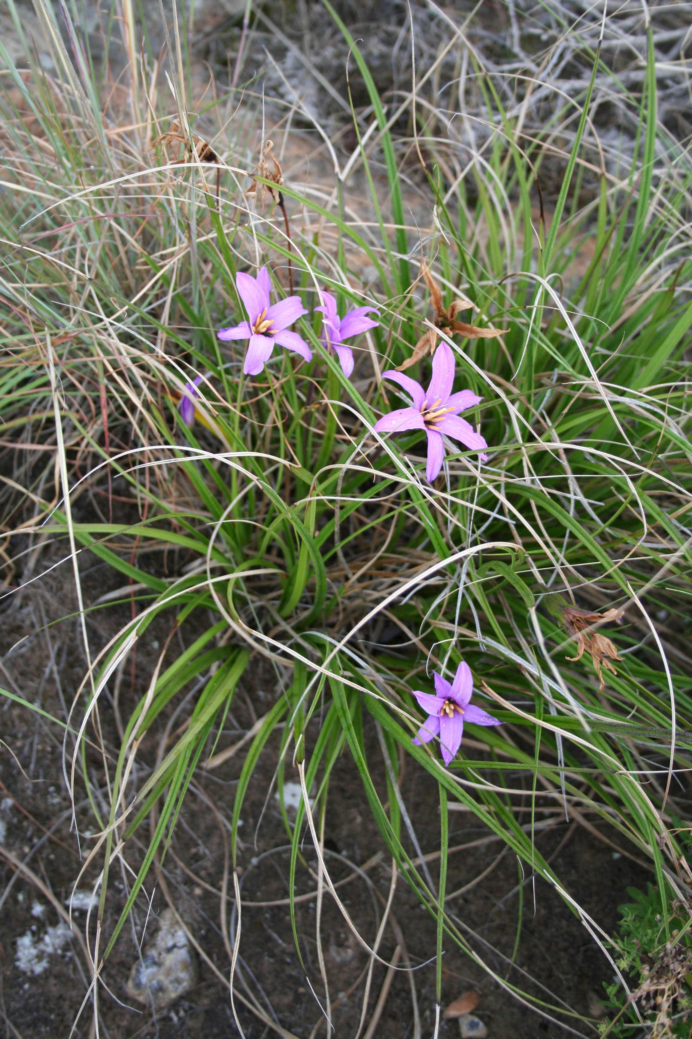 Xerophyta viscosa, Camel Rock, Free State, South Africa